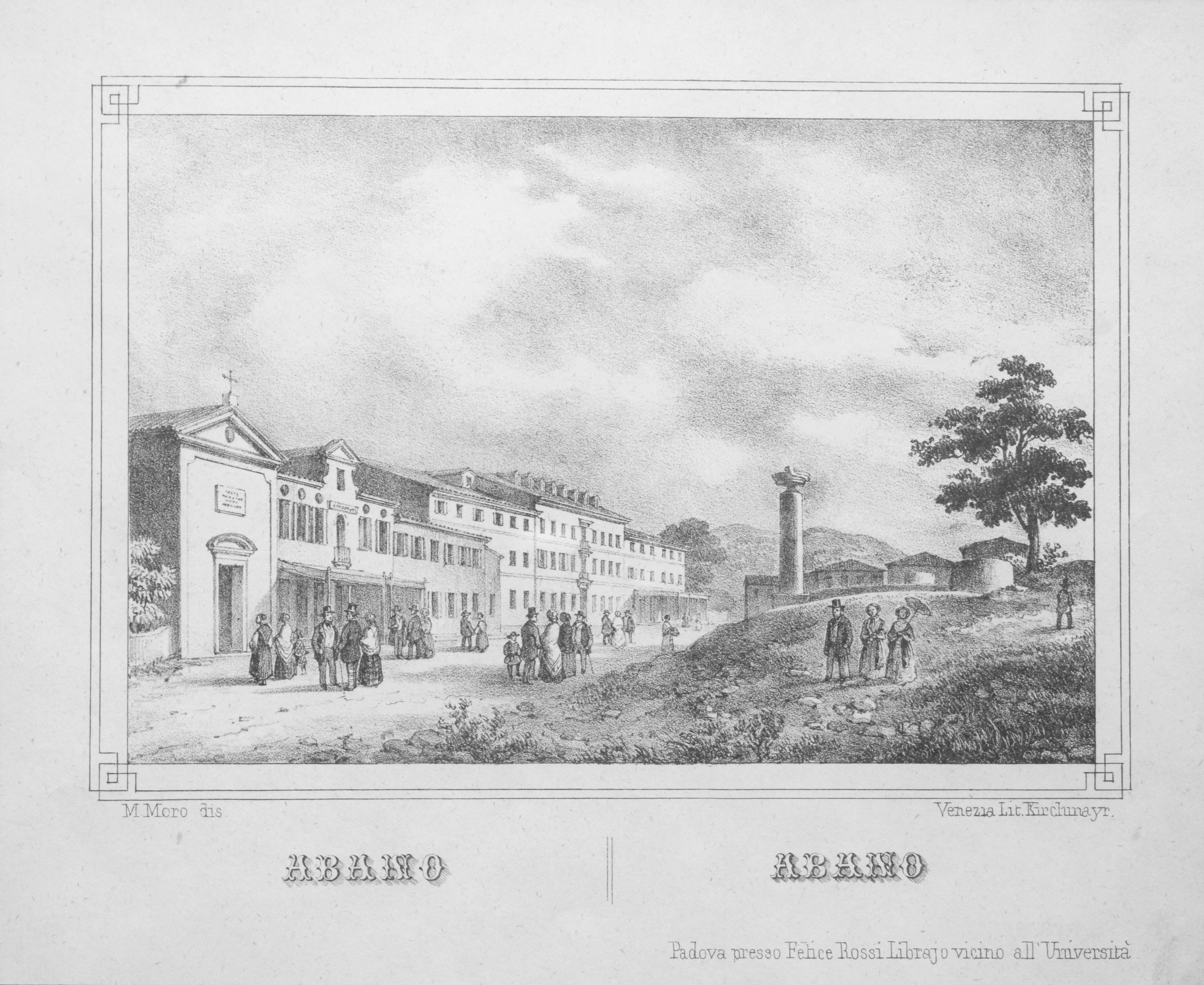 View of Montirone garden and Oratorio in Abano Terme, author Marco Moro, lithographer Kyrchmayr Venice